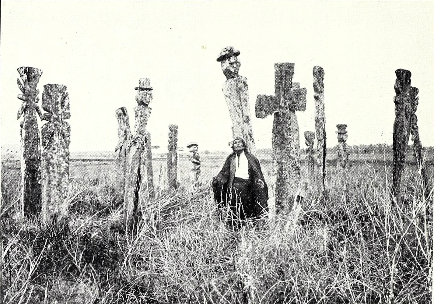 Araucanian cementery and priest called "Machi"